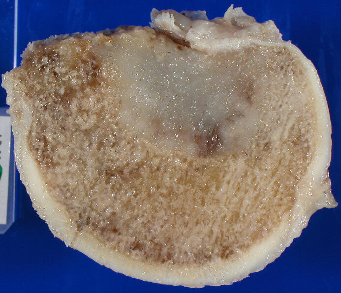 Gross photograph of the left femoral head with a similar lytic lesion.